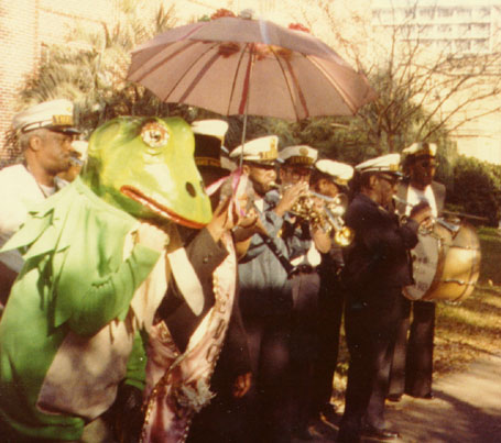 New Orleans Carnival: "Krewe of Toad" parade on Tulane University campus, with Tuxedo Brass Band Looks to include Gregg Stafford, Kid Simmons, trumpets Photo by Infrogmation, Carnival season, 1980